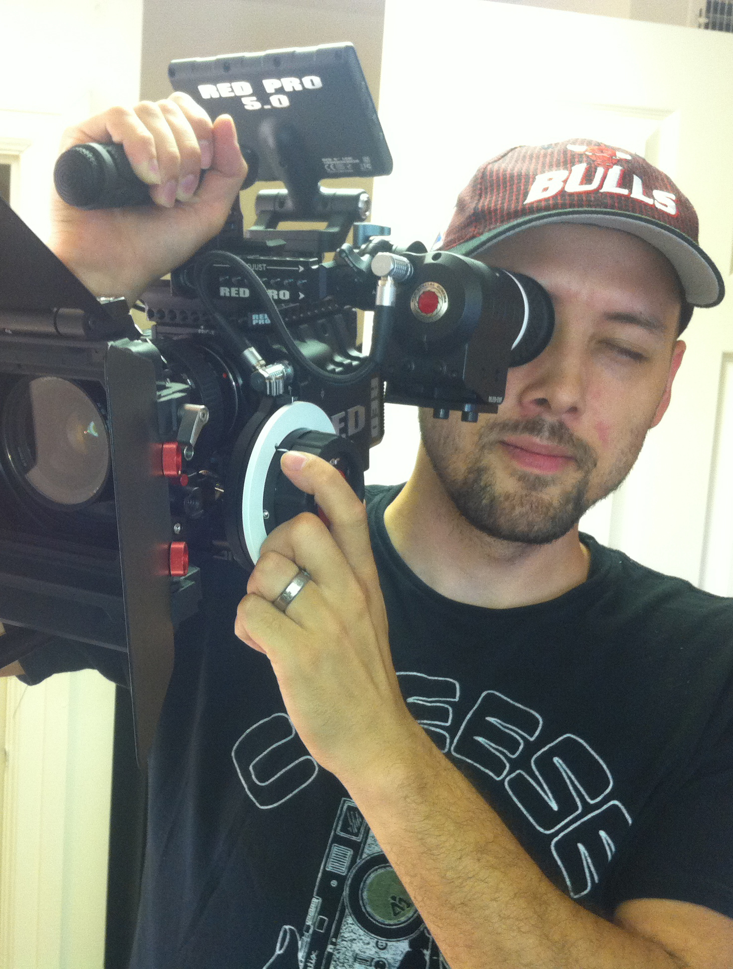 Peter Oberth with RED Epic Camera